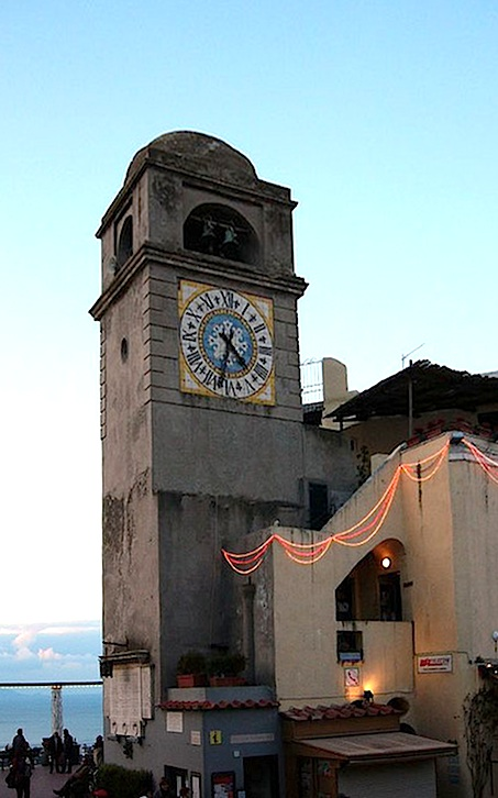 Clocktower at the Piazzetta, Capri